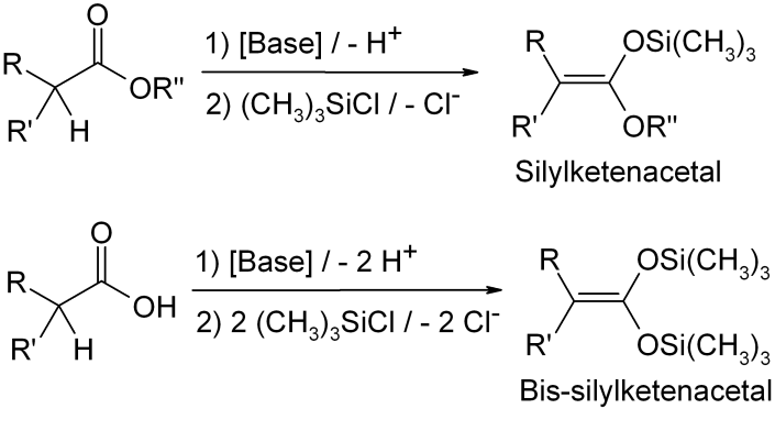 Formation of silyl ketene acetals, or bis-silyl ketene acetals, from esters or carboxylic acids and chlorotrimethylsilane